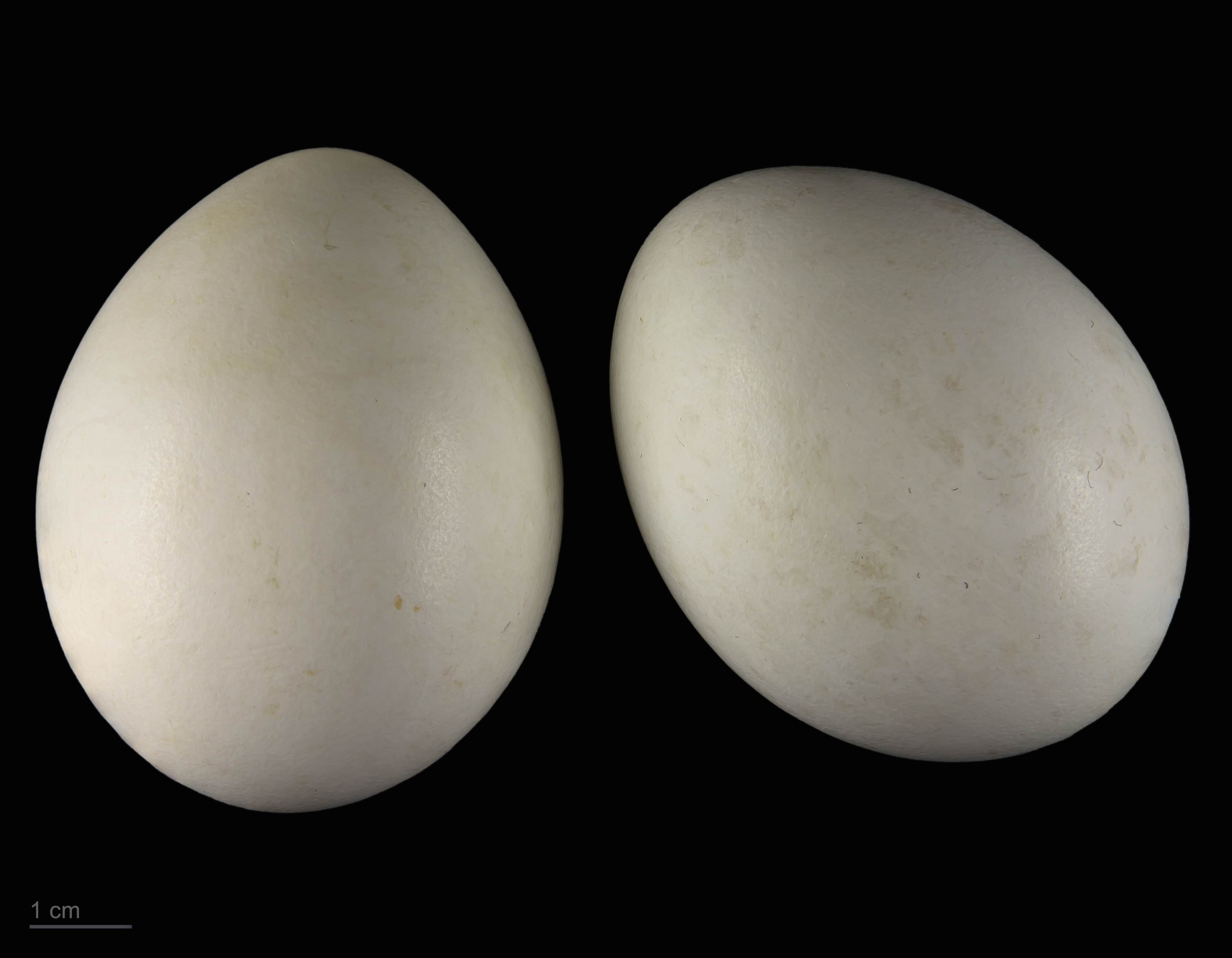 Eggs of northern goshawk Two specimens of the same spawn ; collection of Jacques Perrin de Brichambaut.